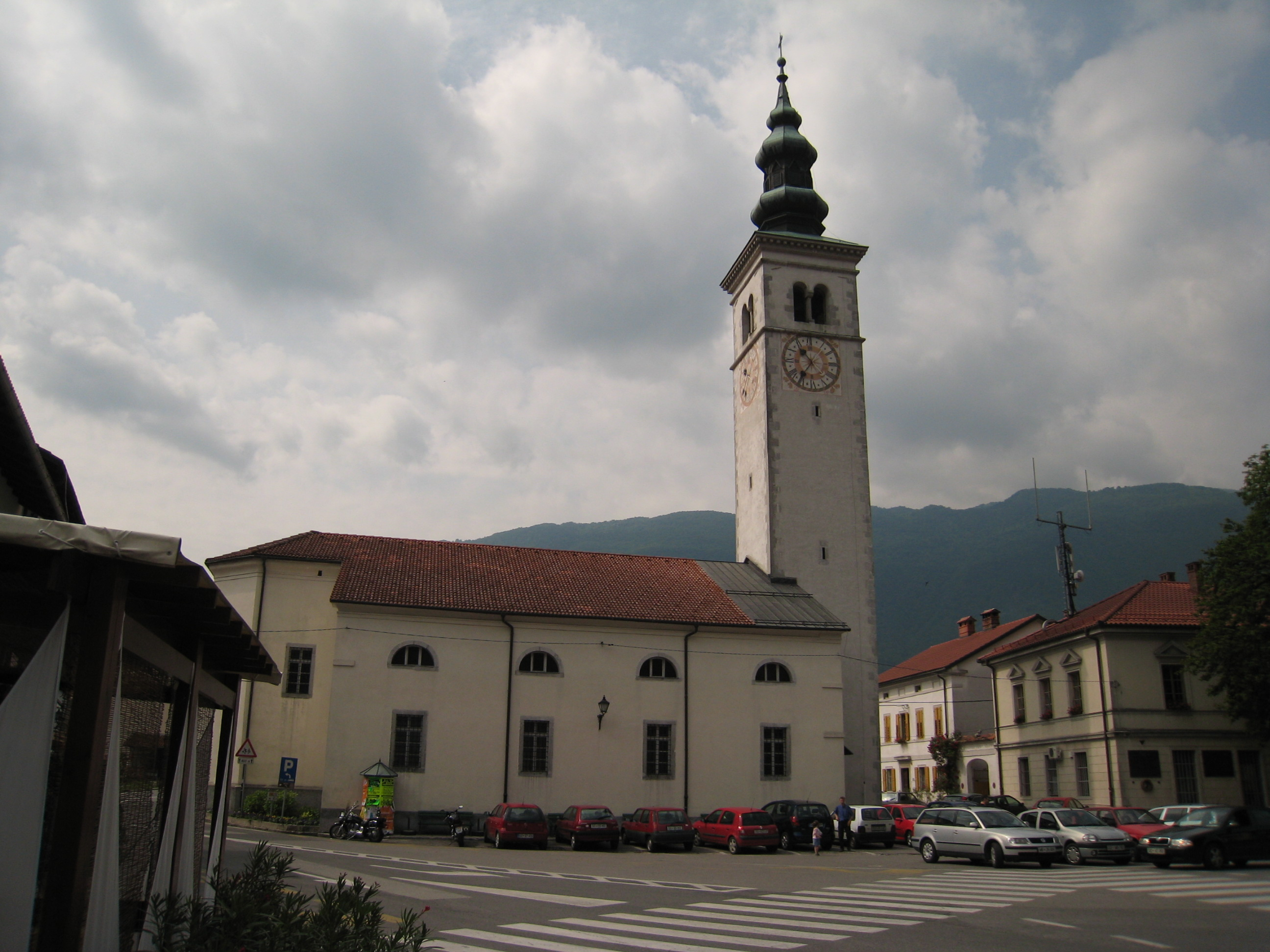 Church of the Assumption, Kobarid, Slovenia.